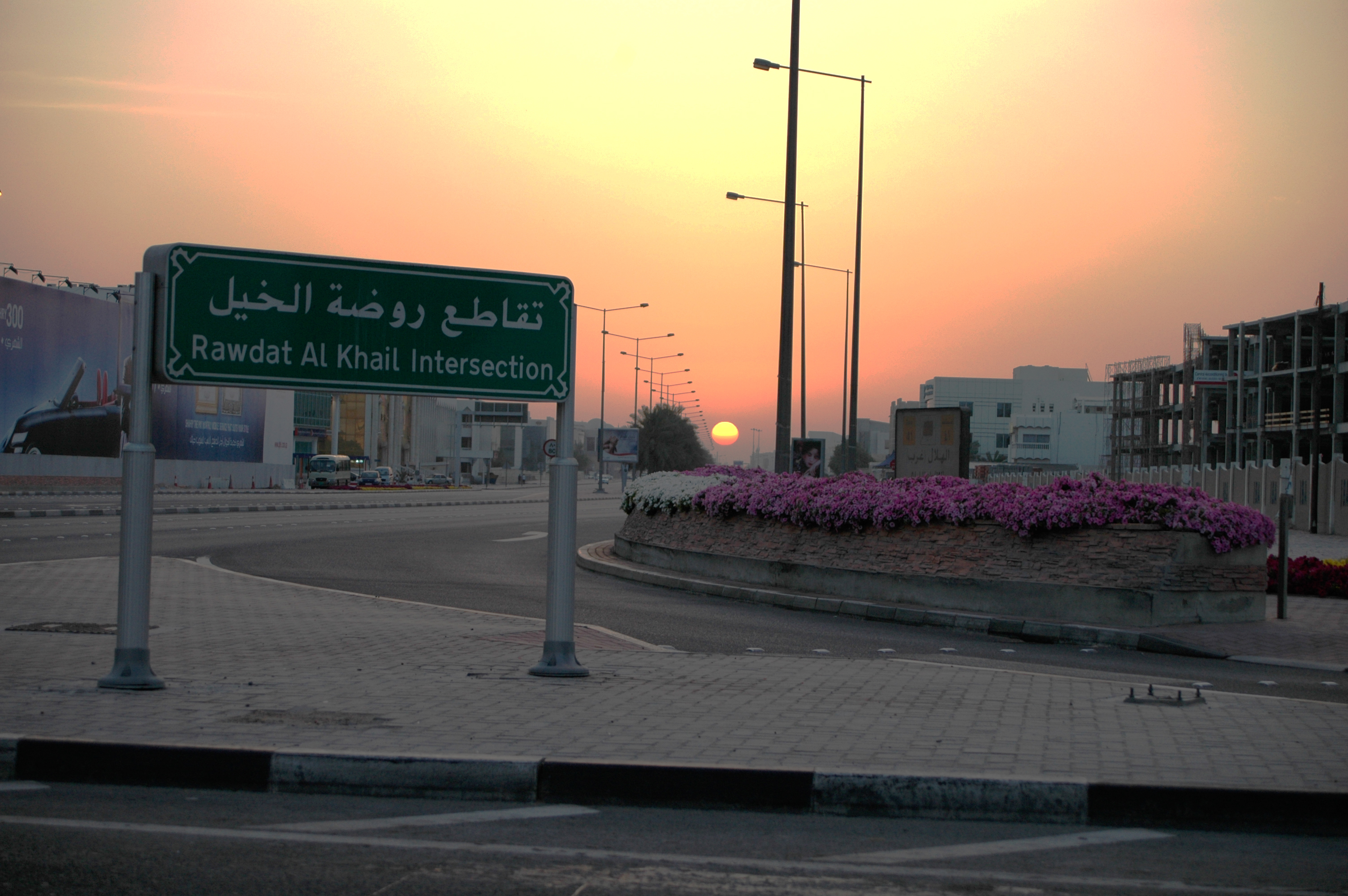 Sign for Zone 41 (Al Hilal West at the time, now Nuaija) at Rawdat Al Khail Intersection in Doha, Qatar.